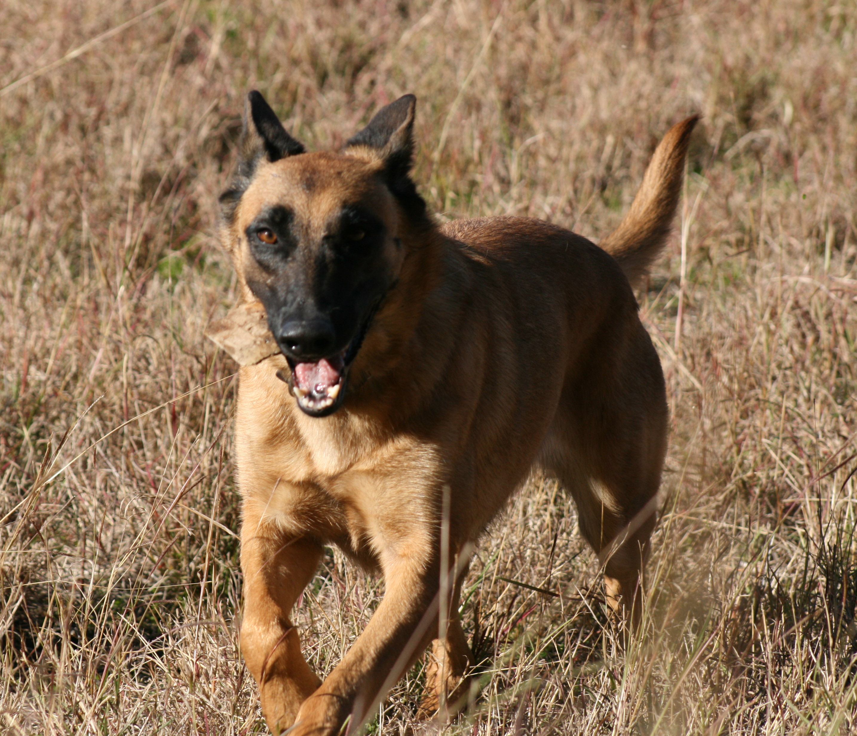 This is my Belgian Malinois, Cinder. She is my pride and joy. No father was ever prouder of his little girl than I am of her.